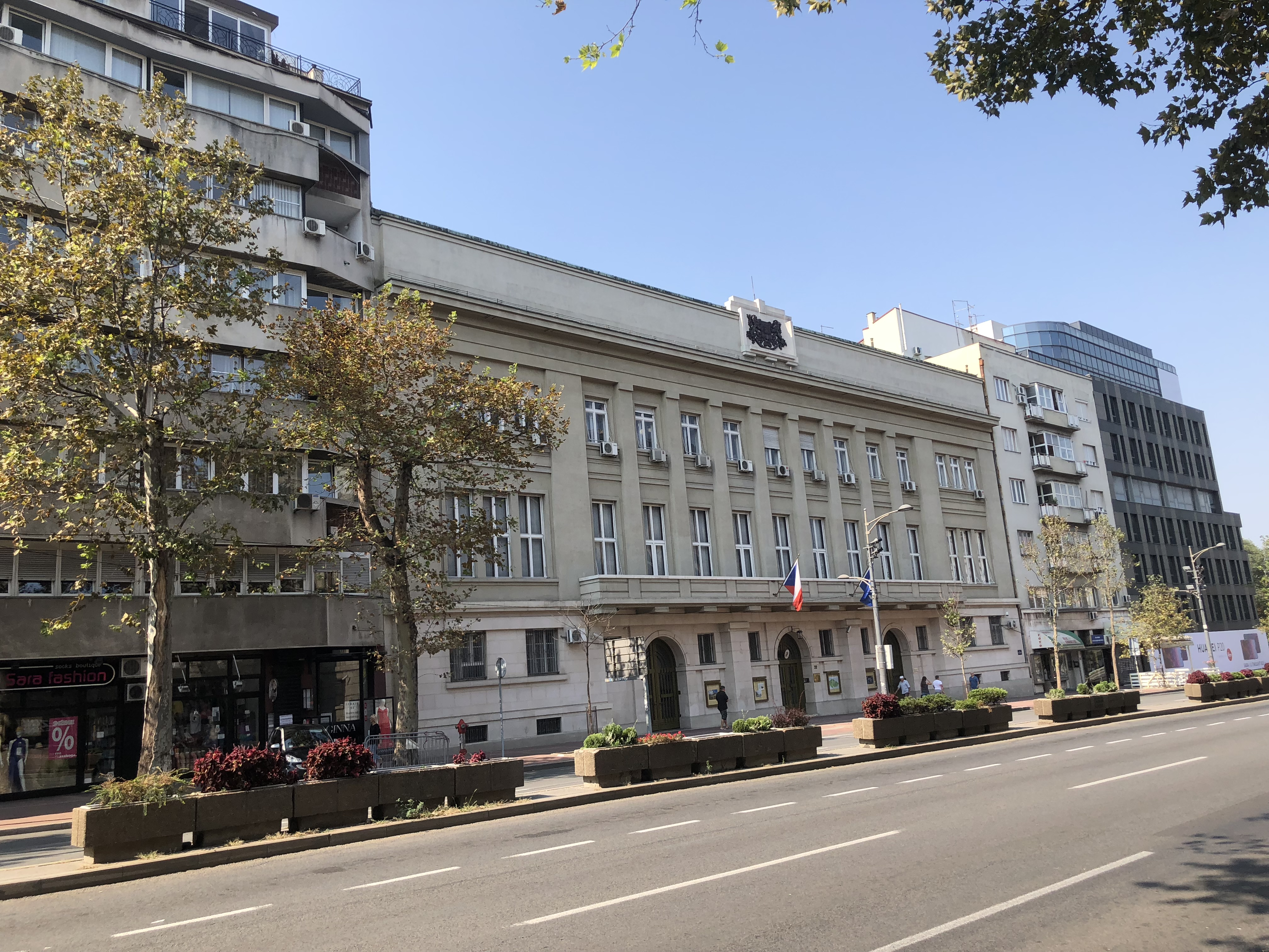 Czech Embassy in Belgrade.